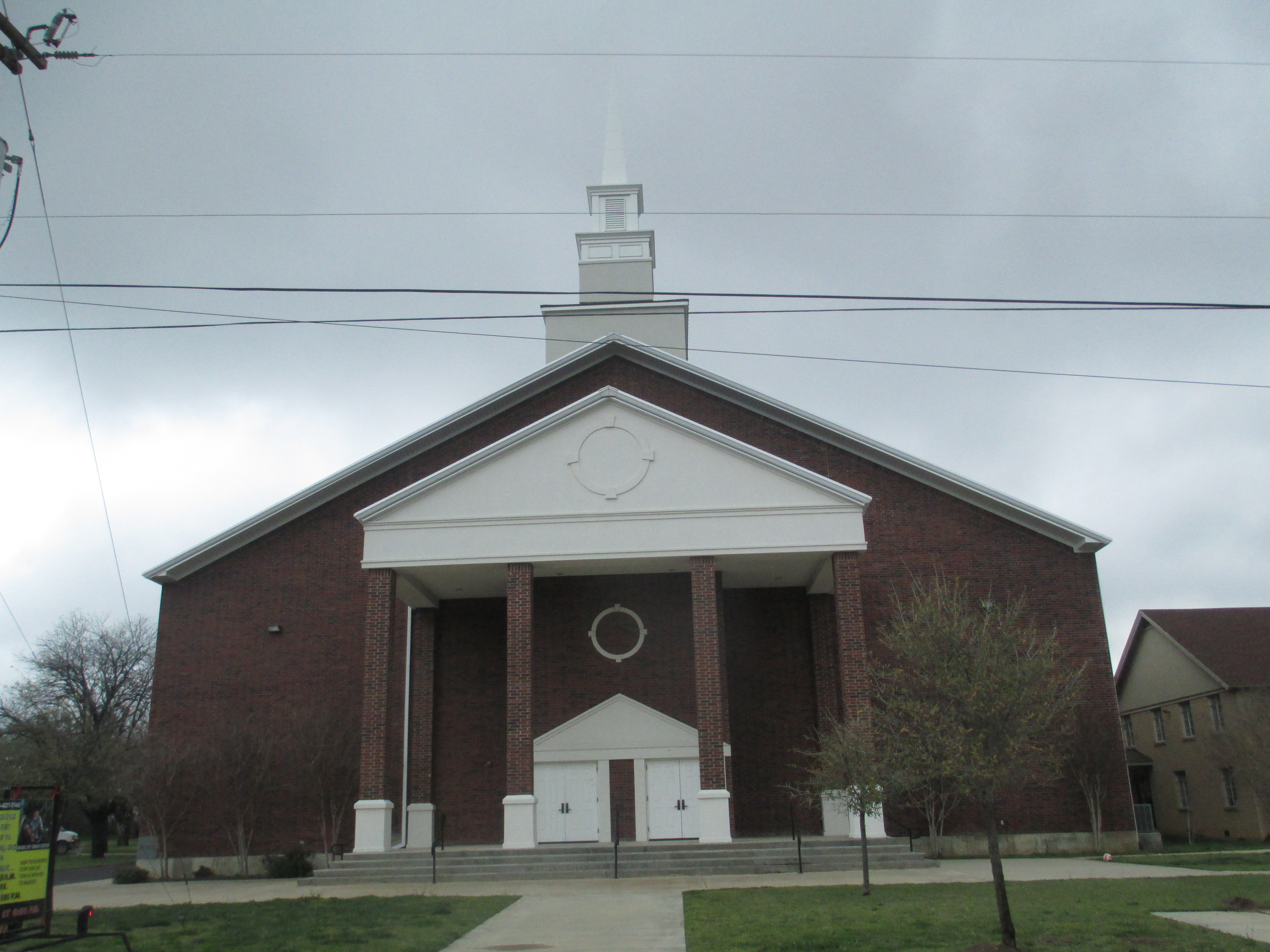 I took photo of First Baptist Church in Alvord, TX, with Canon camera, April 4, 2013. Billy Hathorn (talk) 01:27, 12 April 2013 (UTC)